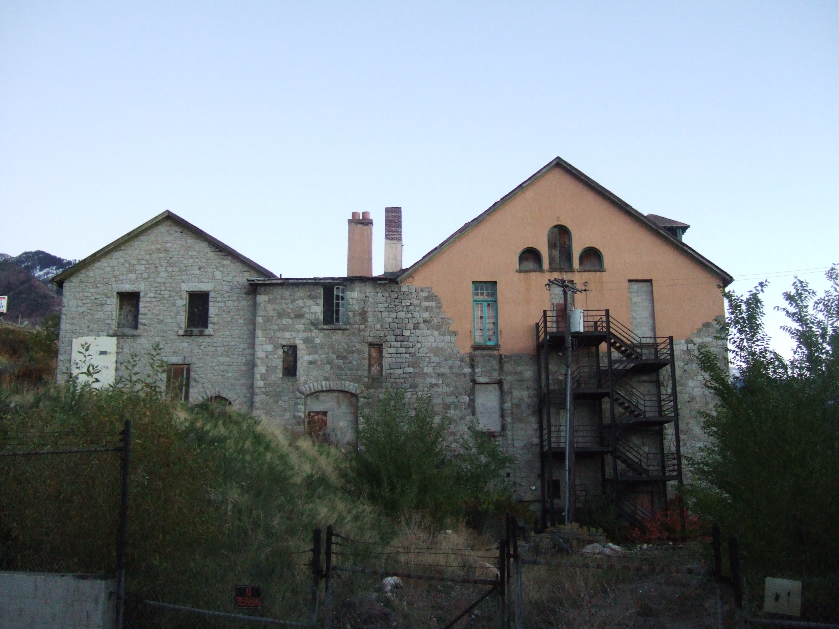 Photo of the back side of the Cottonwood Paper Mill, located at the mouth of Big Cottonwood Canyon in Cottonwood Heights, Utah.